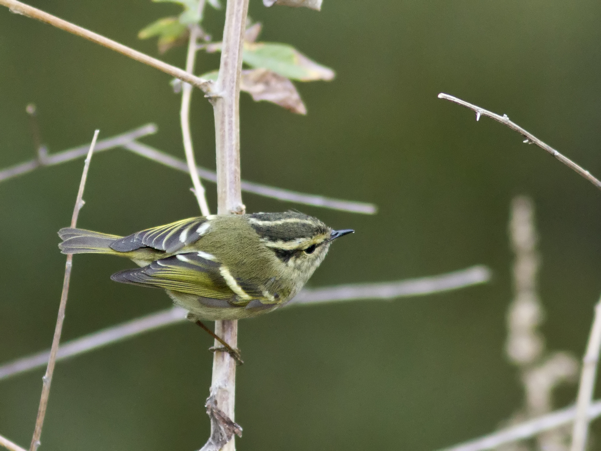 Lemon-rumped Warbler (Phylloscopus chloronotus) at Dehradun (Uttarakhand), India